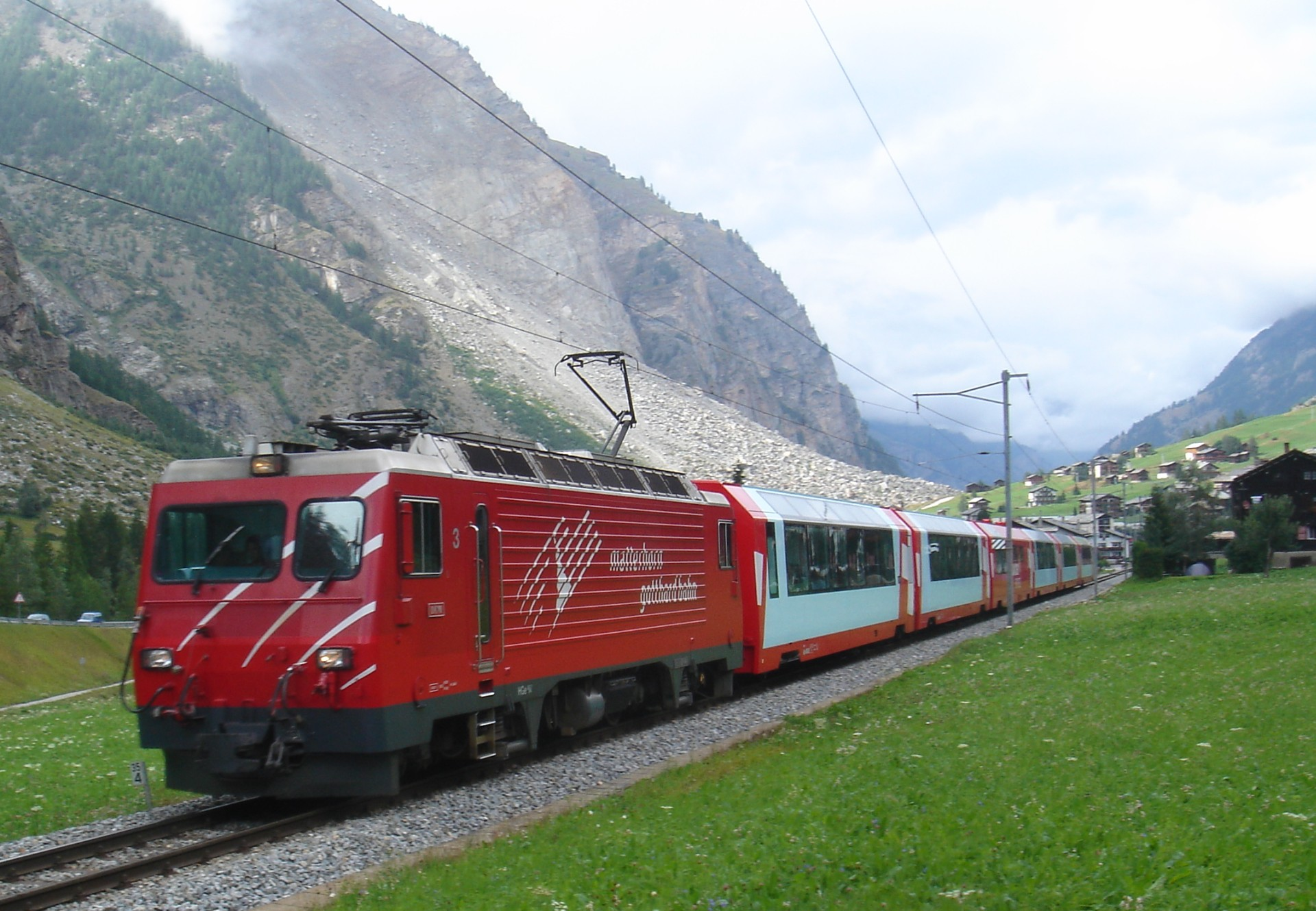 Glacier-Express 907 with MGB HGe 4/4" 3 and Stadler panoramic coaches in Randa VS